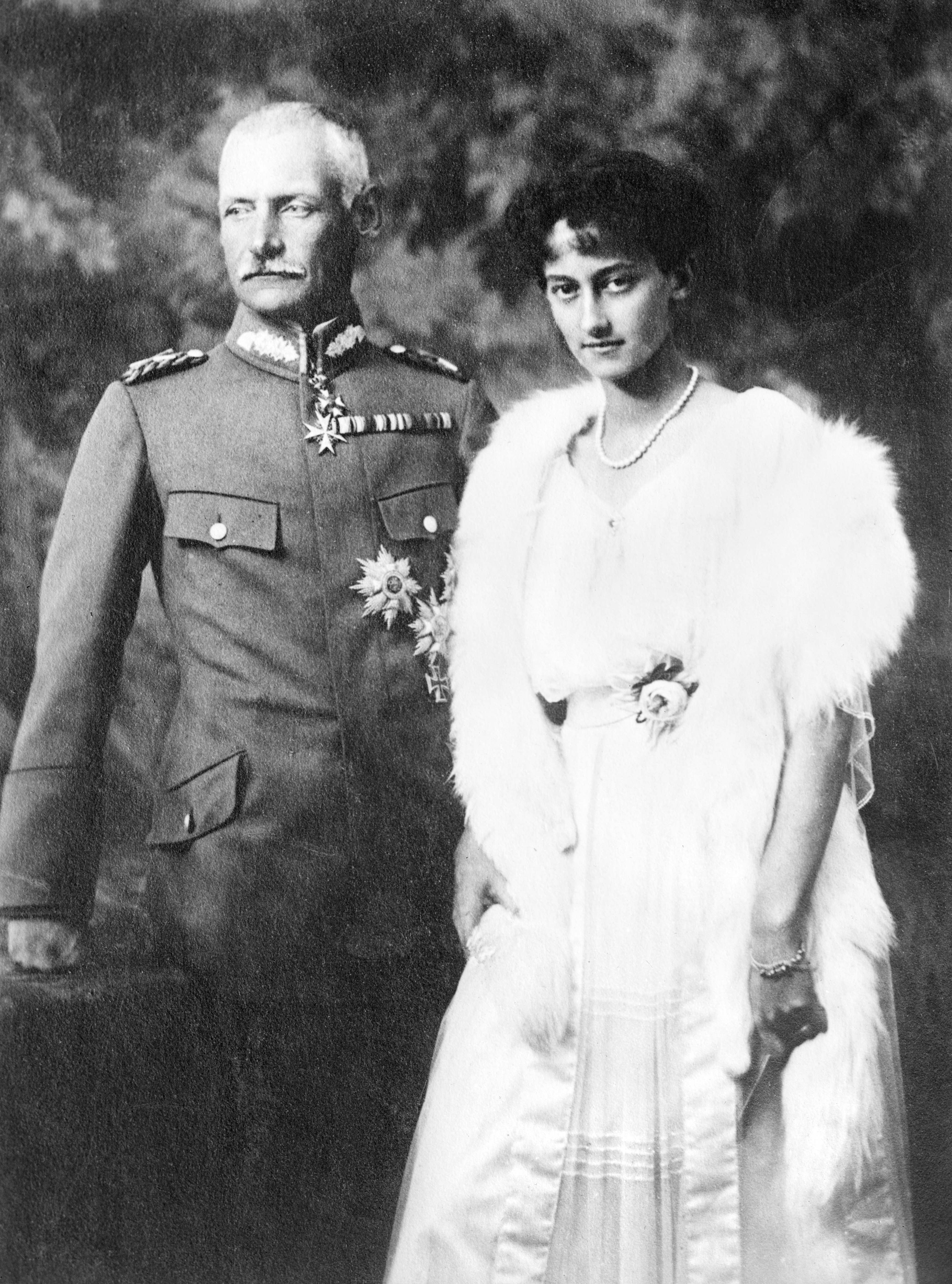 Title: Prince Rupprecht (Bavaria) & Antonie of Luxemburg Abstract/medium: 1 negative : glass ; 5 x 7 in. or smaller.